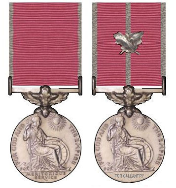 From File:B.E.M..jpg British Empire Medal and British Empire Medal for Courage